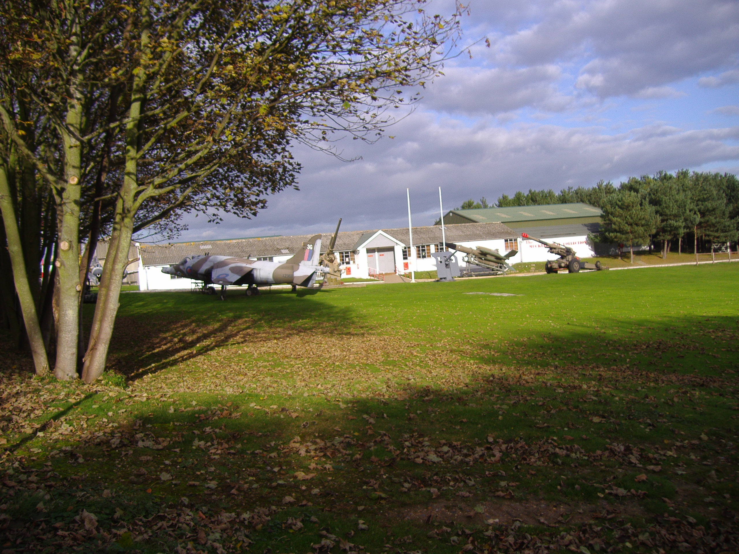 An Original Digital Picture of Weybourne camp November 2006 by Mark Hobbs